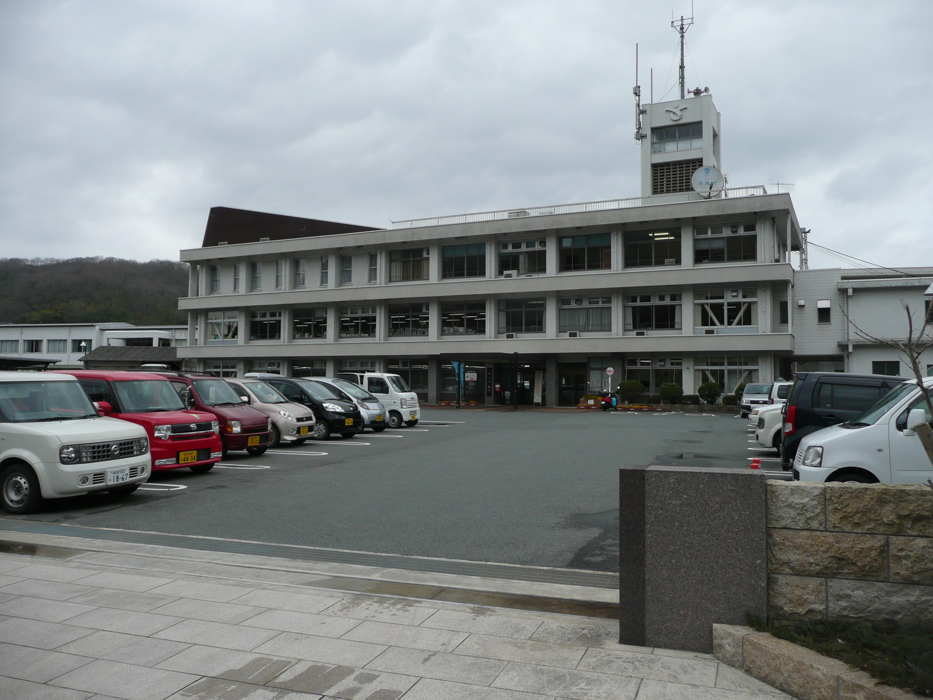 佐用町役場